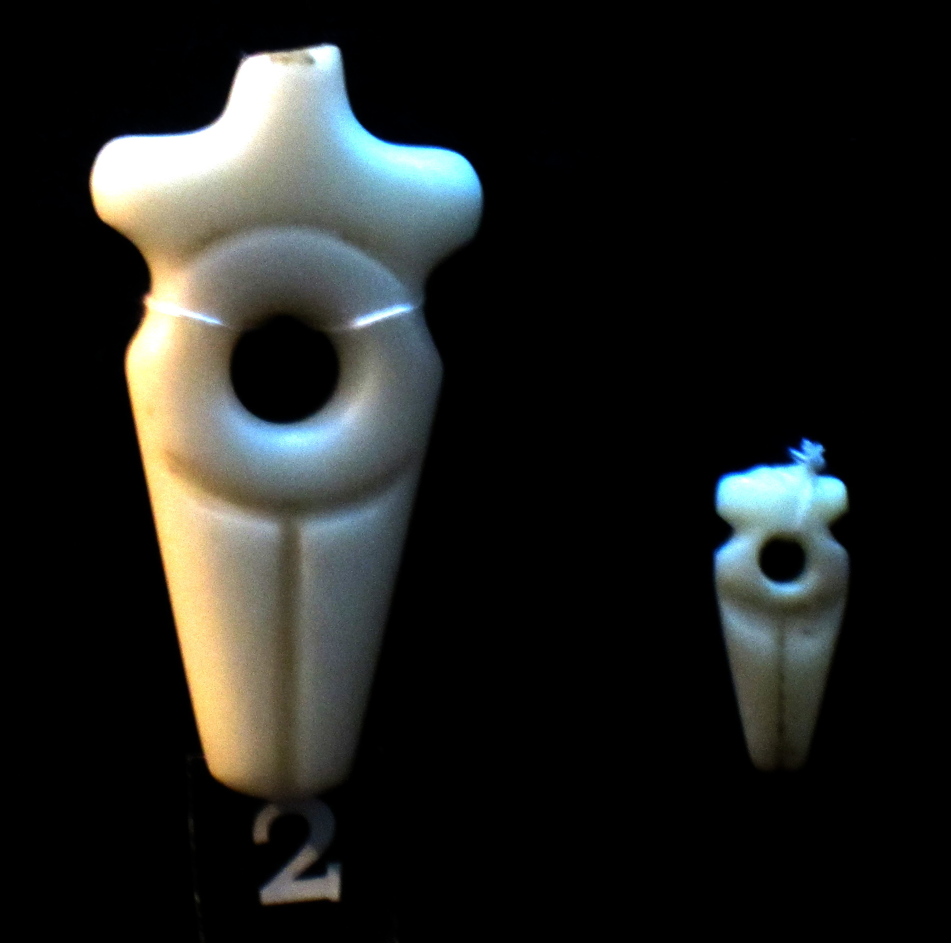 Gumelnita Artefact Constanta National Museum of History